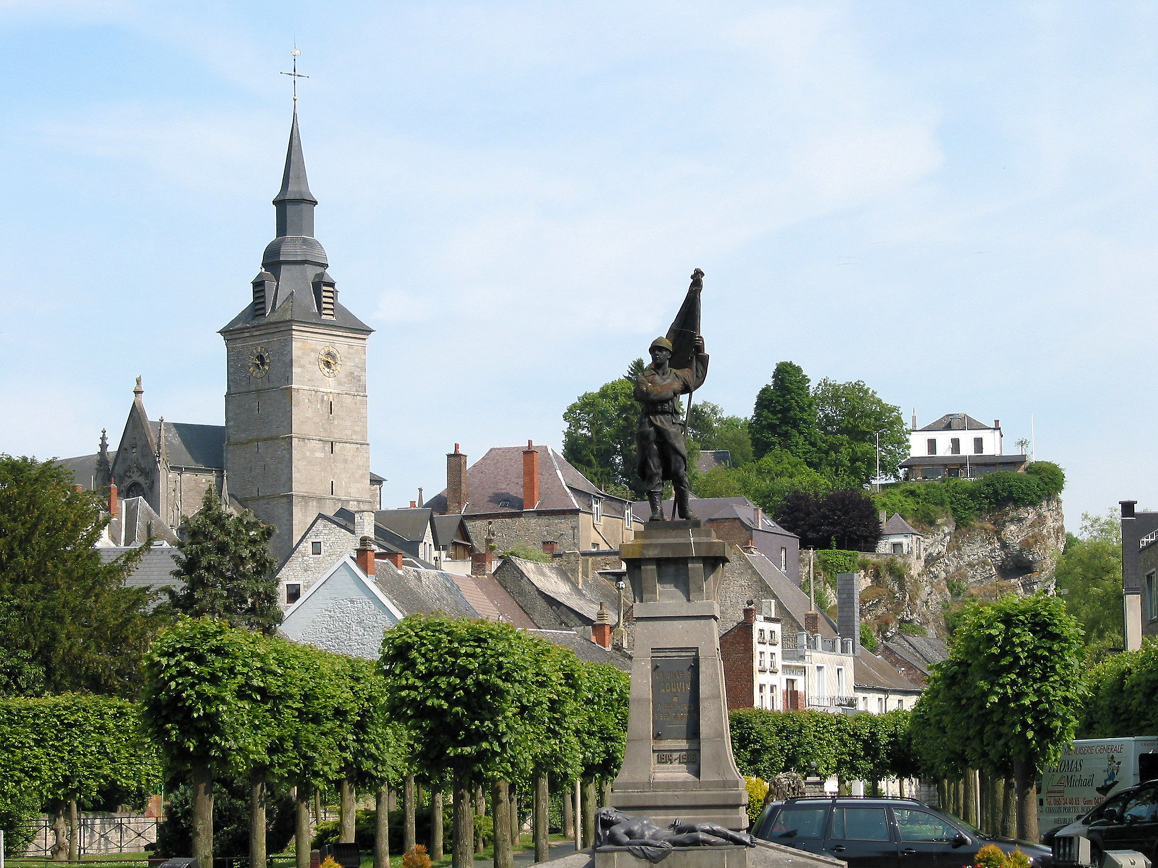 Couvin (Belgium), view on the old city and the St. Germain de Paris church (XVIII - XIXth centuries).